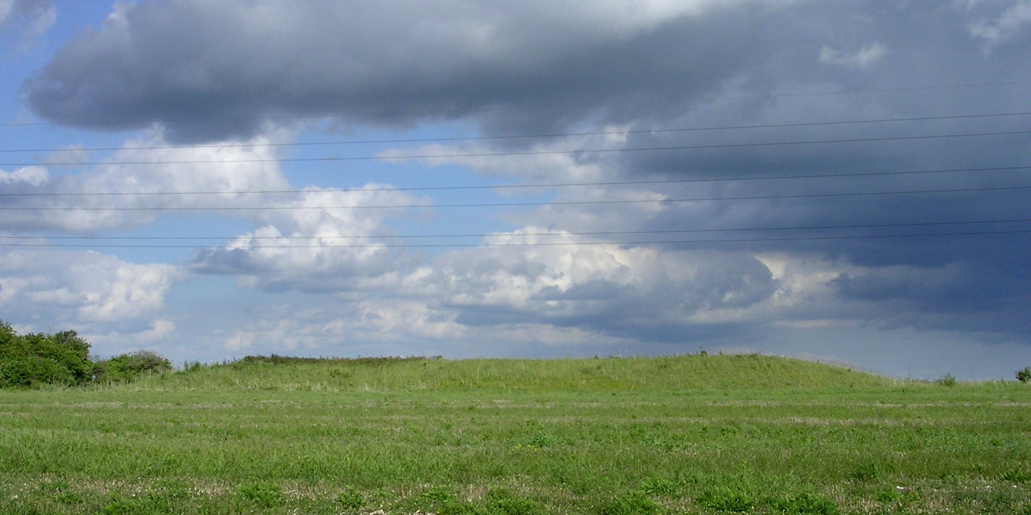 Earthen long barrow named "Grans Barrow" on Toyd Down, Hampshire.